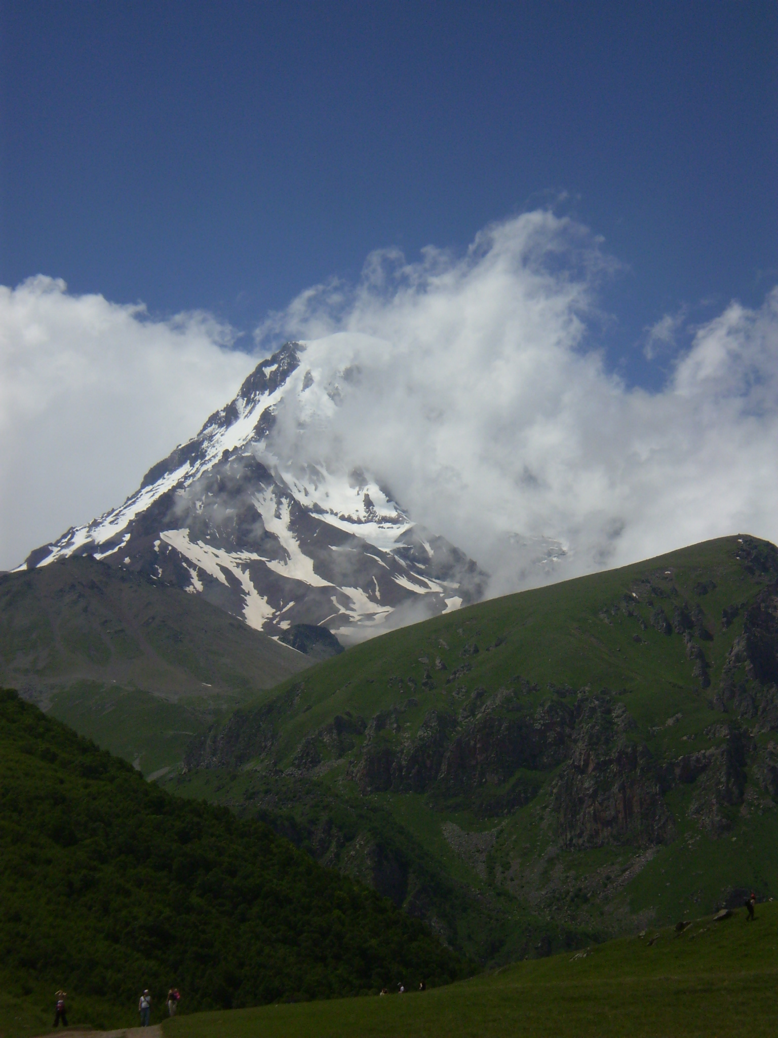 Mount Kazbek in 2009